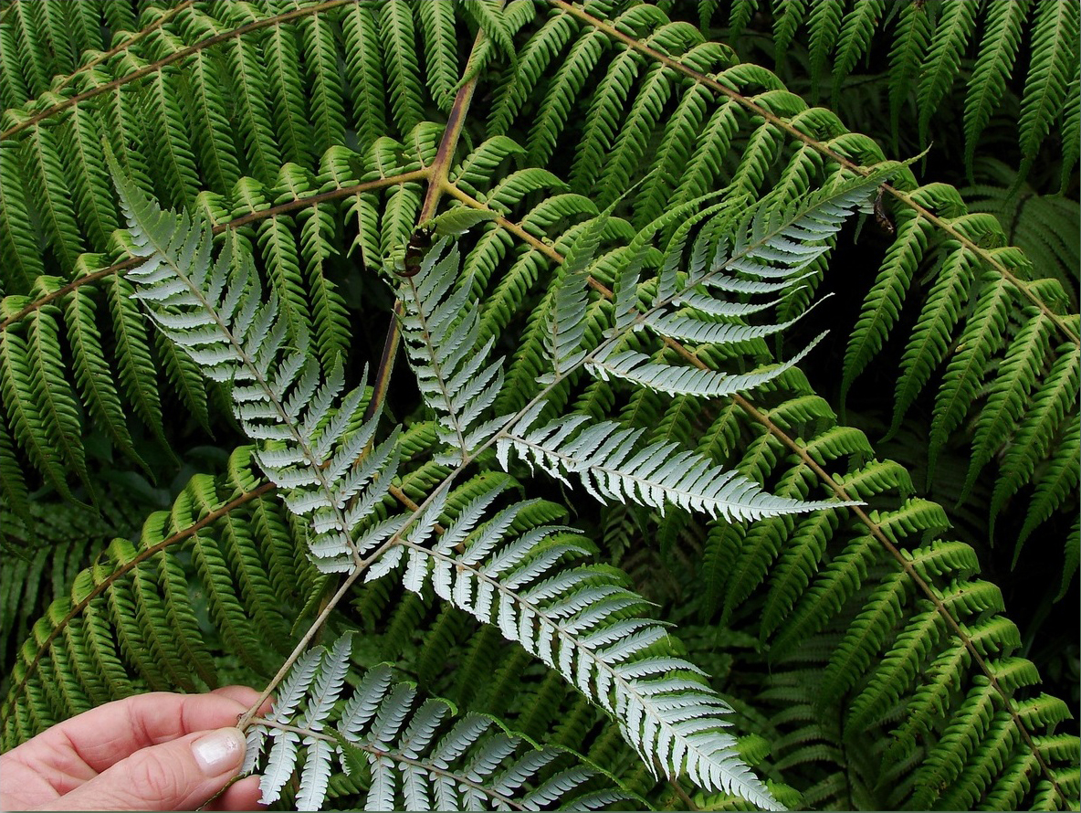 New Zealand's national symbol, the Silver Fern - a treefern about 10m tall with distinct silvery undersides to the leaves.Maori name: ponga Botanic name: Cyathea dealbata